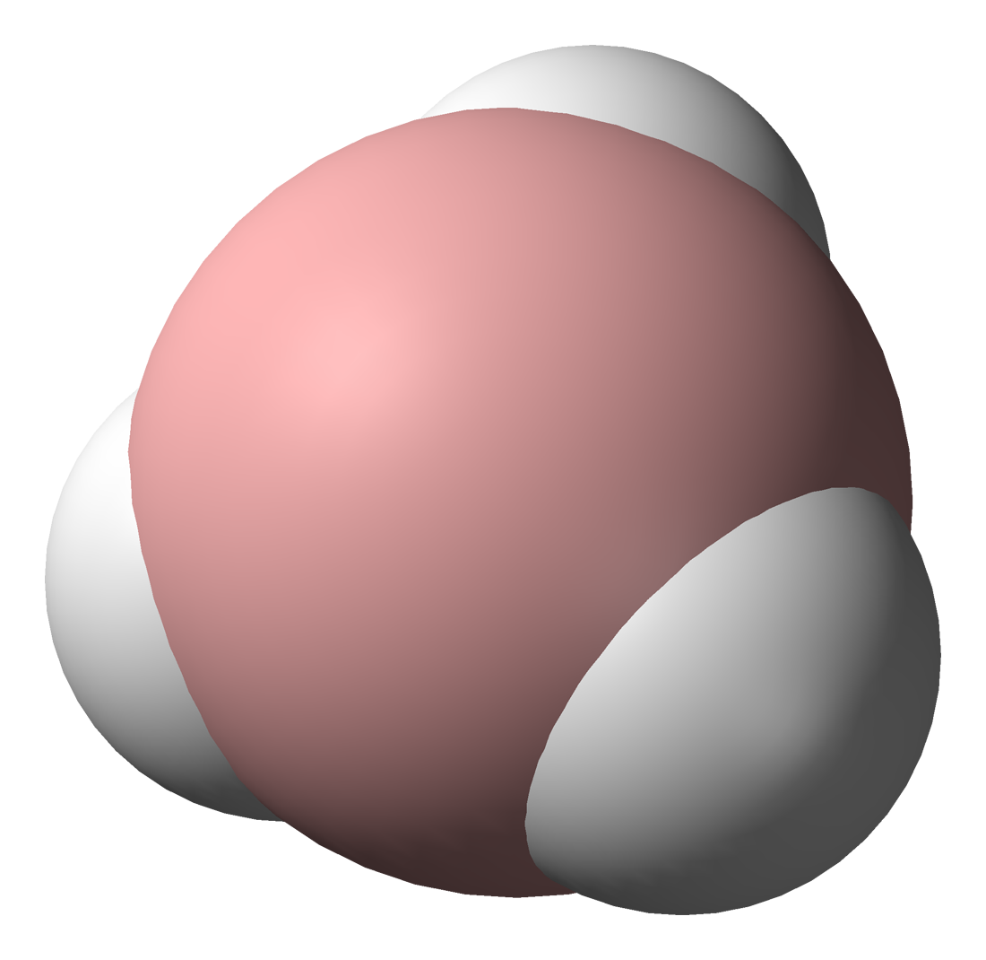 Space-filling model of the borane molecule, BH3